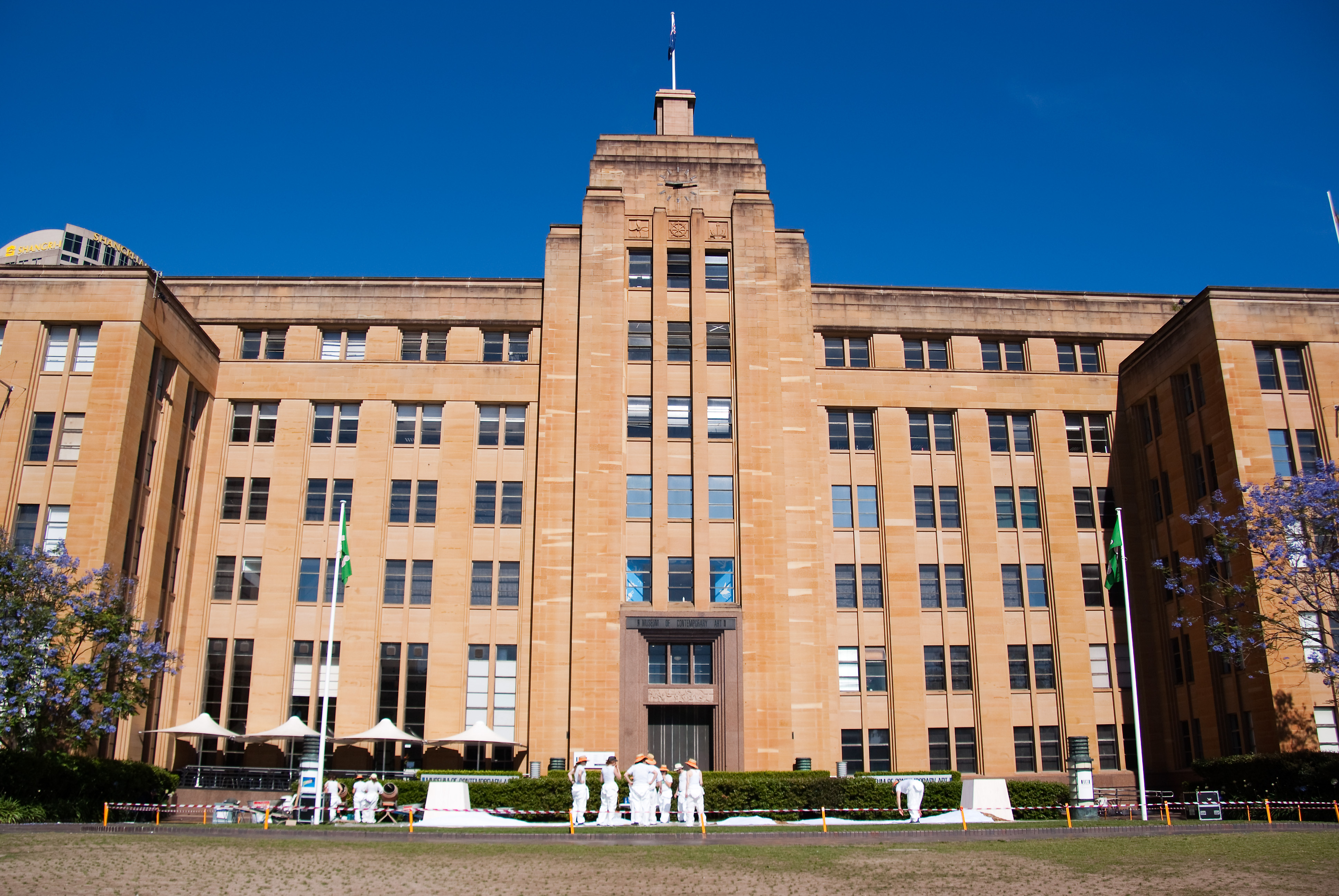 Sydney 19. Museum Of Contemporary Art - Circular Quay, 2009